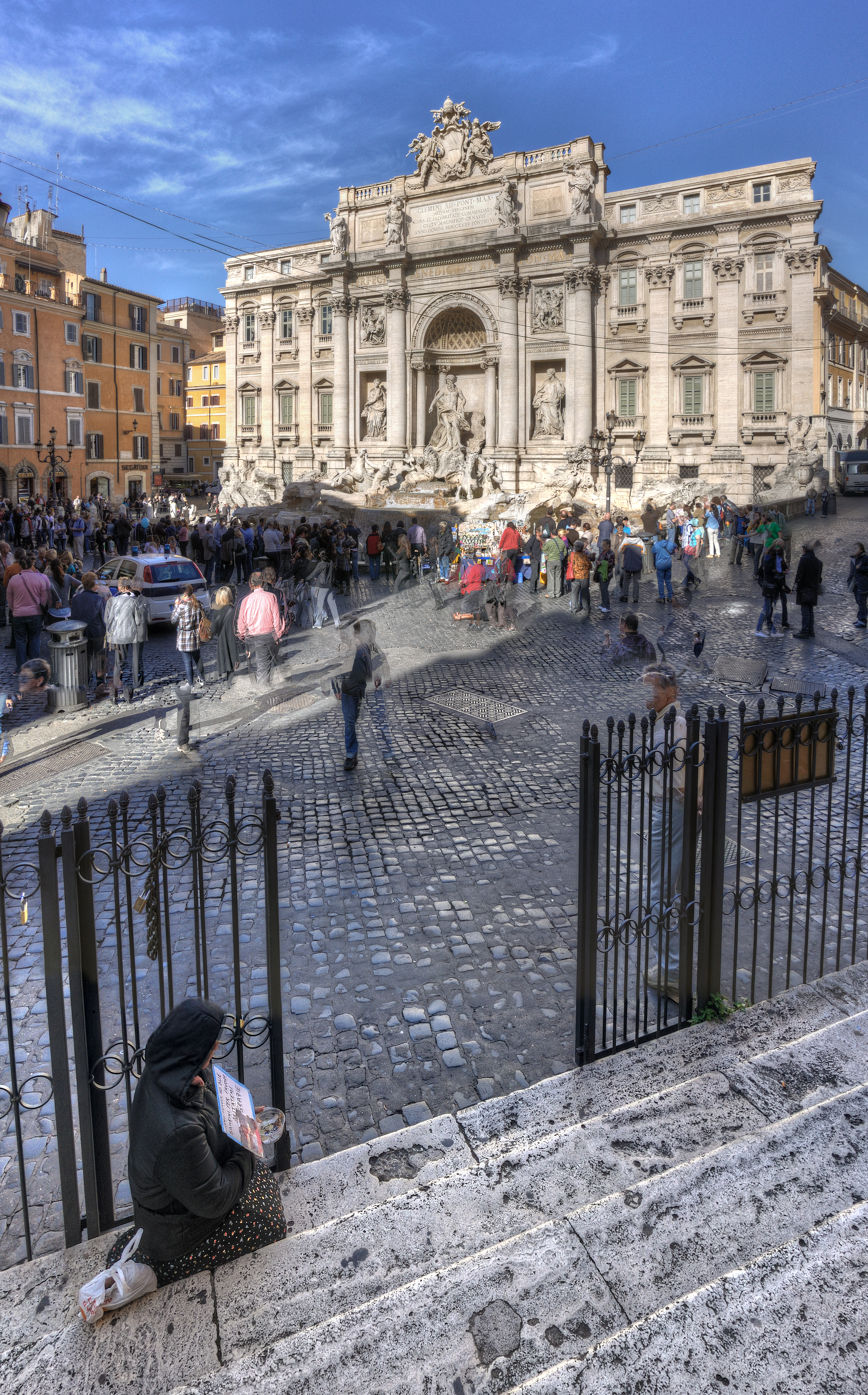 Fontana di Trevi - Roma, Italia